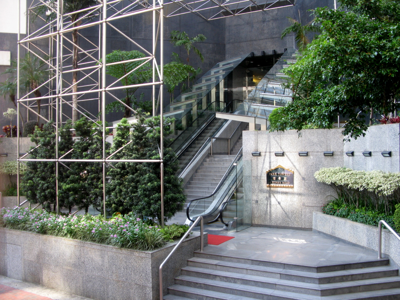 Park Towers